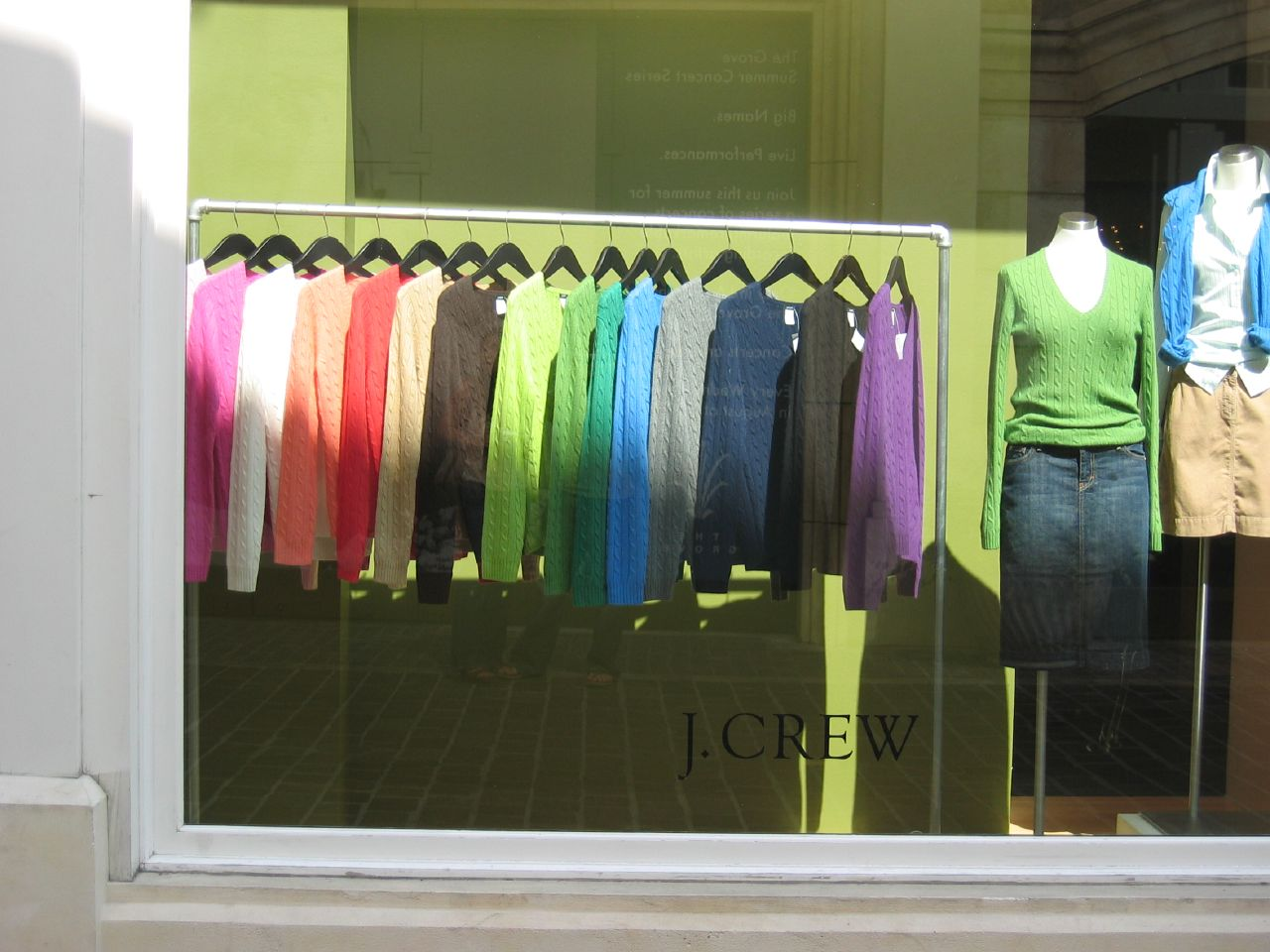 Crew clothes